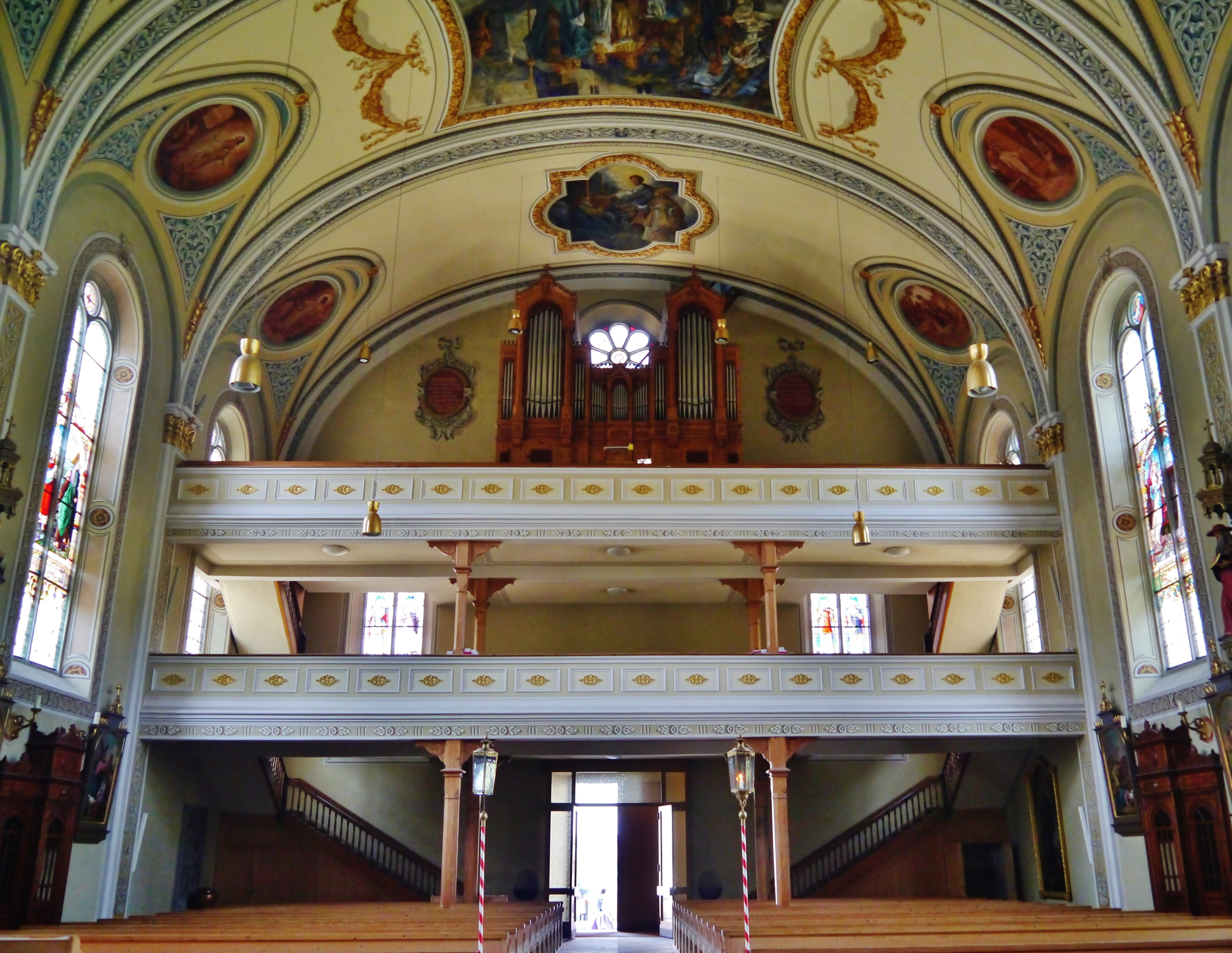 Nave of St. Jodok, Schruns, Vorarlberg, Austria